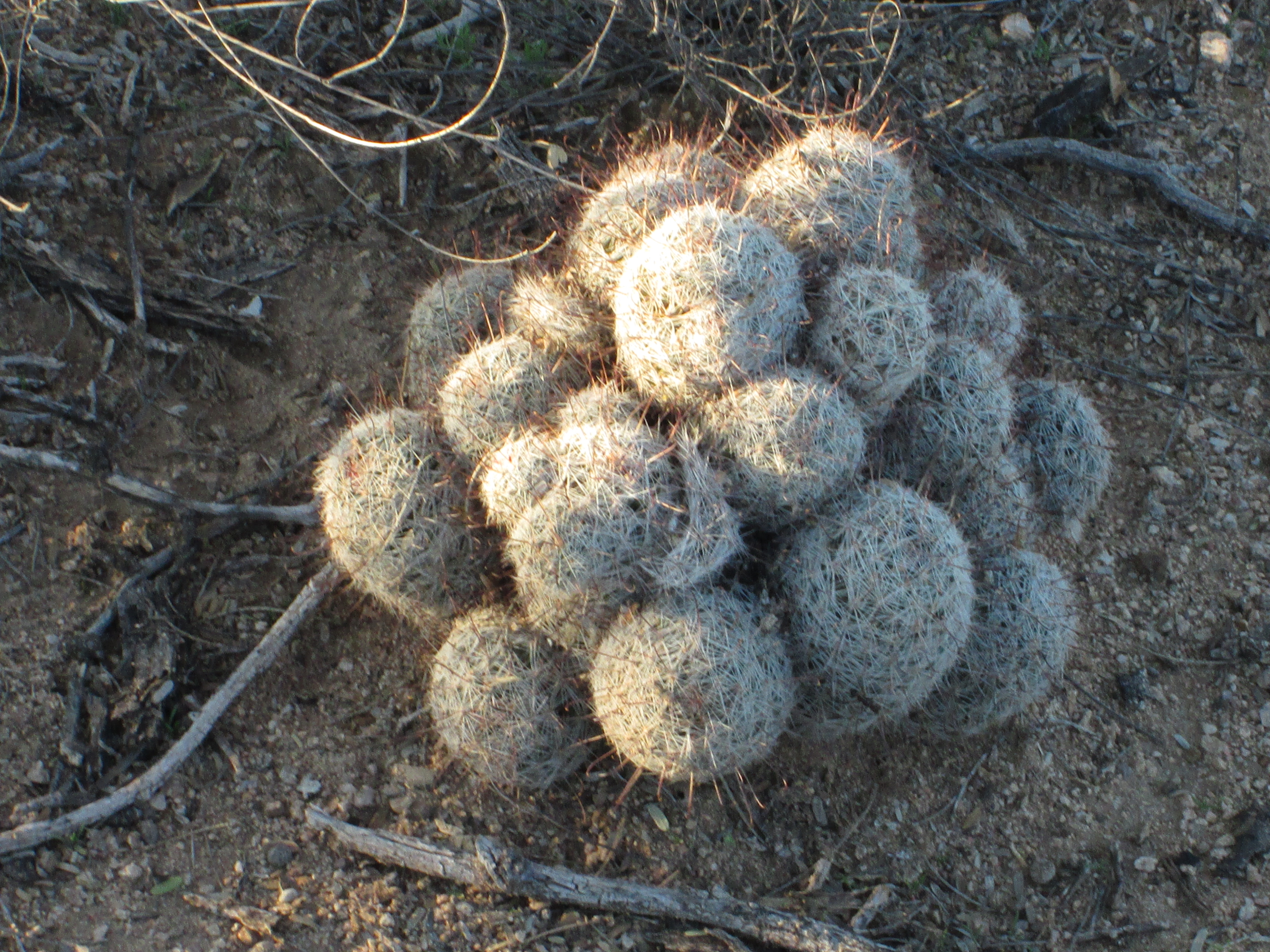 Pincushion cactus cluster in Sahuarita, Arizona. December 11, 2013